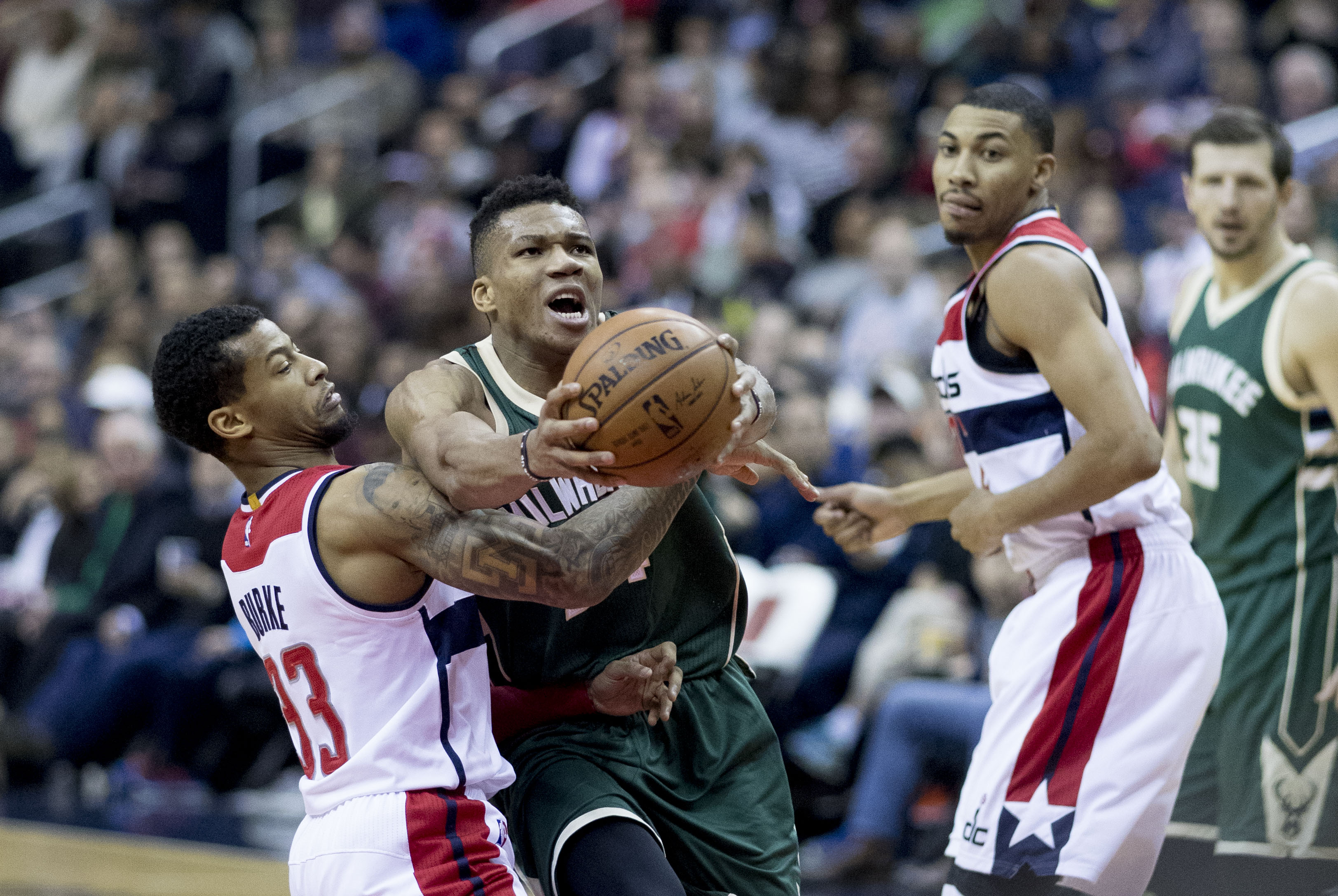 Giannis Antetokounmpo vs Washington Wizards, December 12th 2016